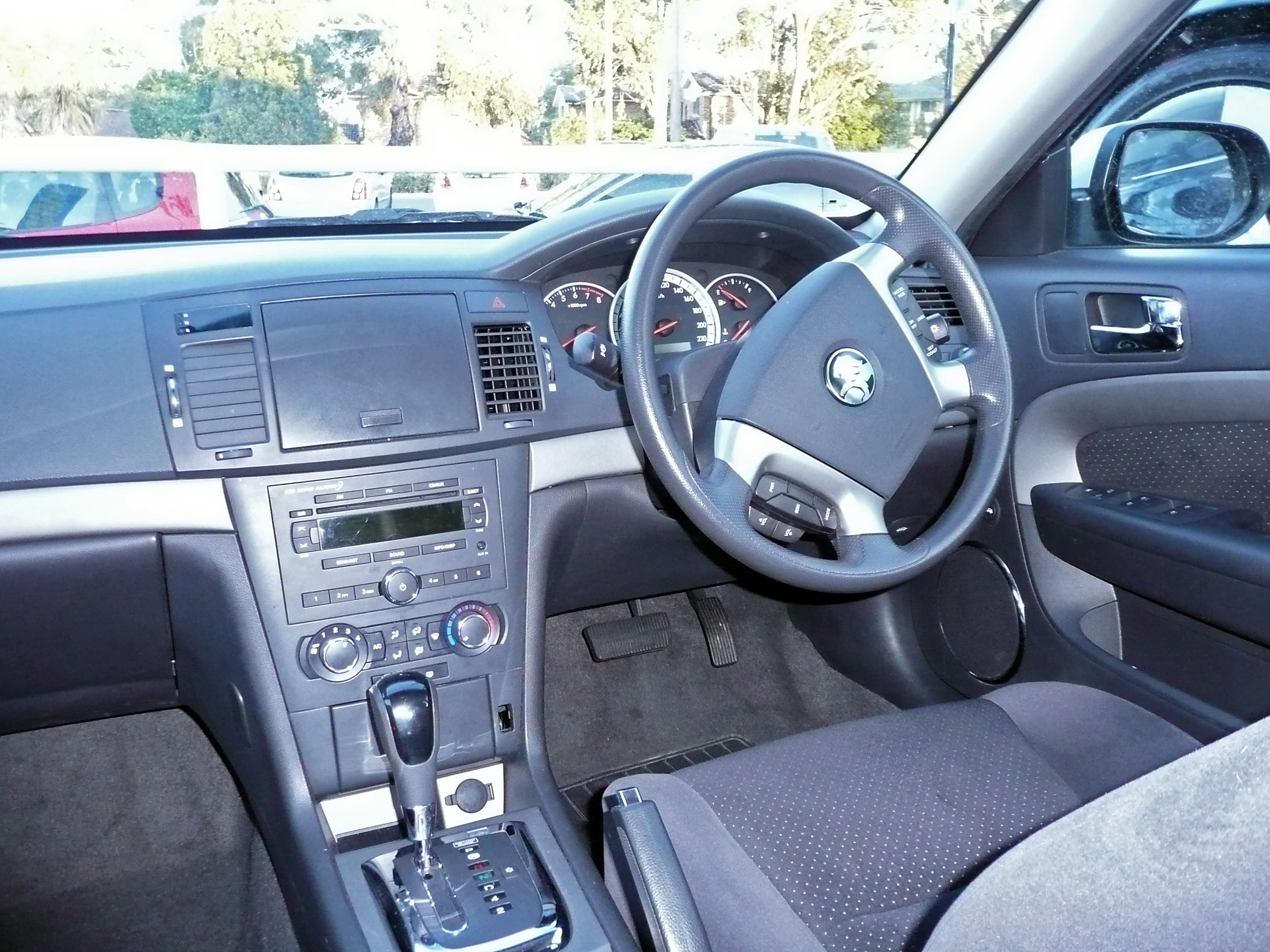 2007 Holden Epica (EP) CDX sedan. Photographed at McGrath Sutherland Holden, Kirrawee, New South Wales, Australia.